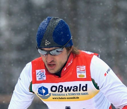 Leanid Karneyenka at the Tour de Ski 2010 in Oberhof